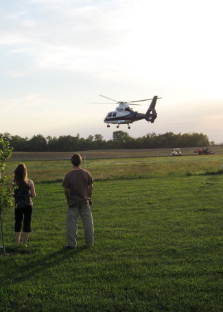 Life Flight ascending from a rural pasture temporary landing zone cleared by EMS